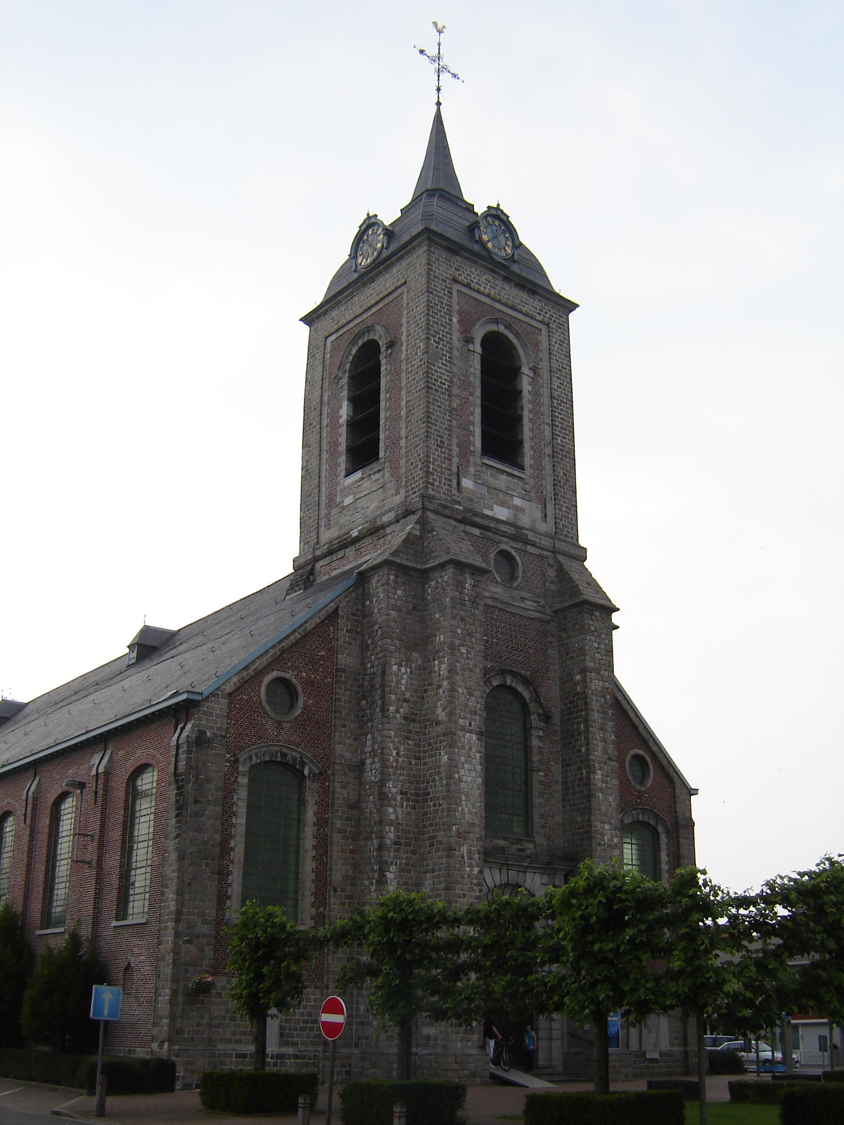 Church of Saint Peter in Ledegem. Ledegem, West-Flanders, Belgium